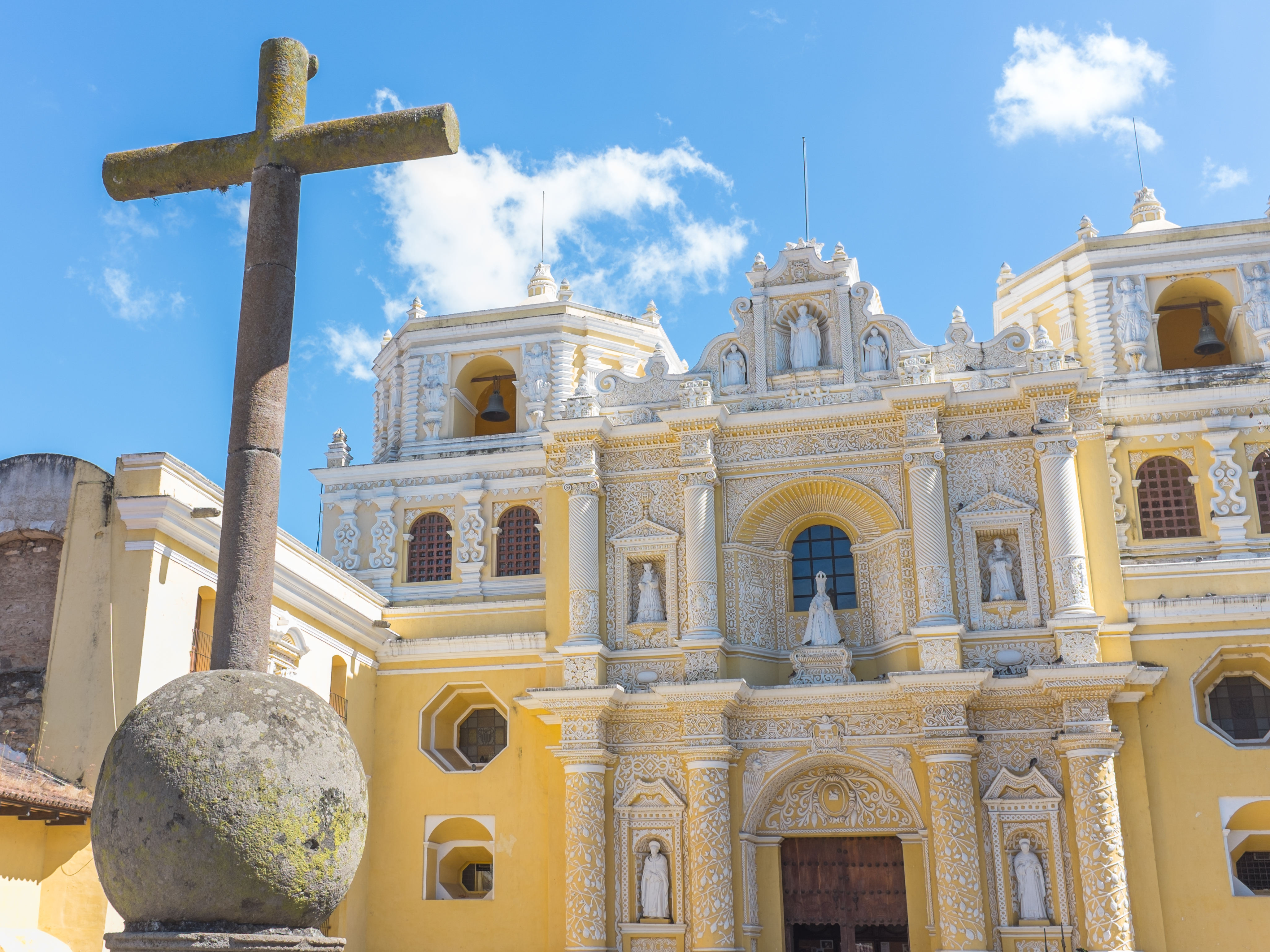 Church from Antigua, Guatemala.